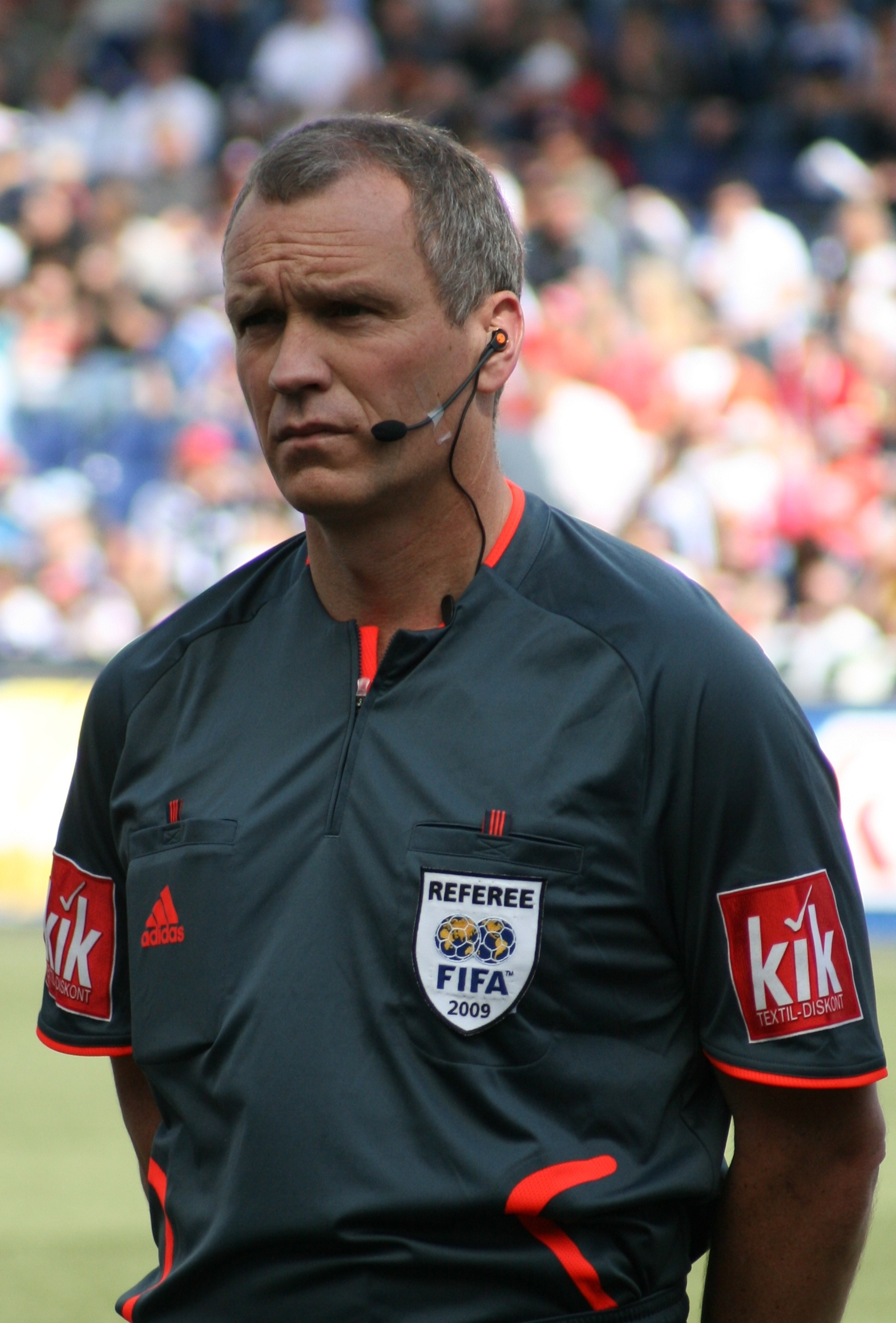 Austrian football referee Stefan Meßner.